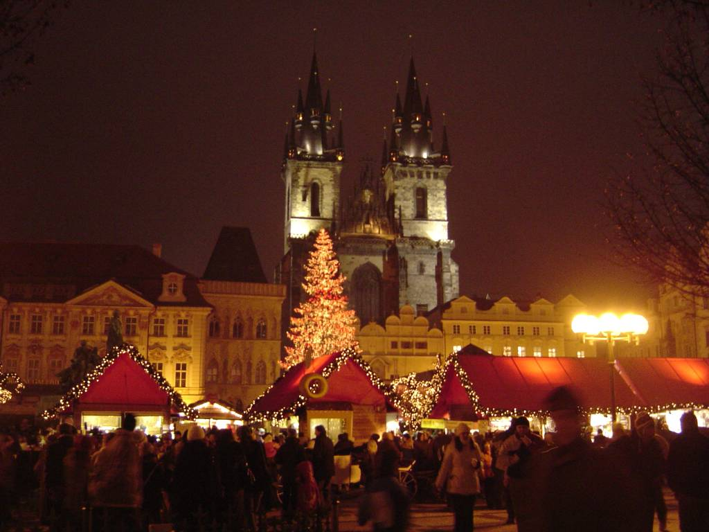 Christmas market on Old Town Square, Prague 2007